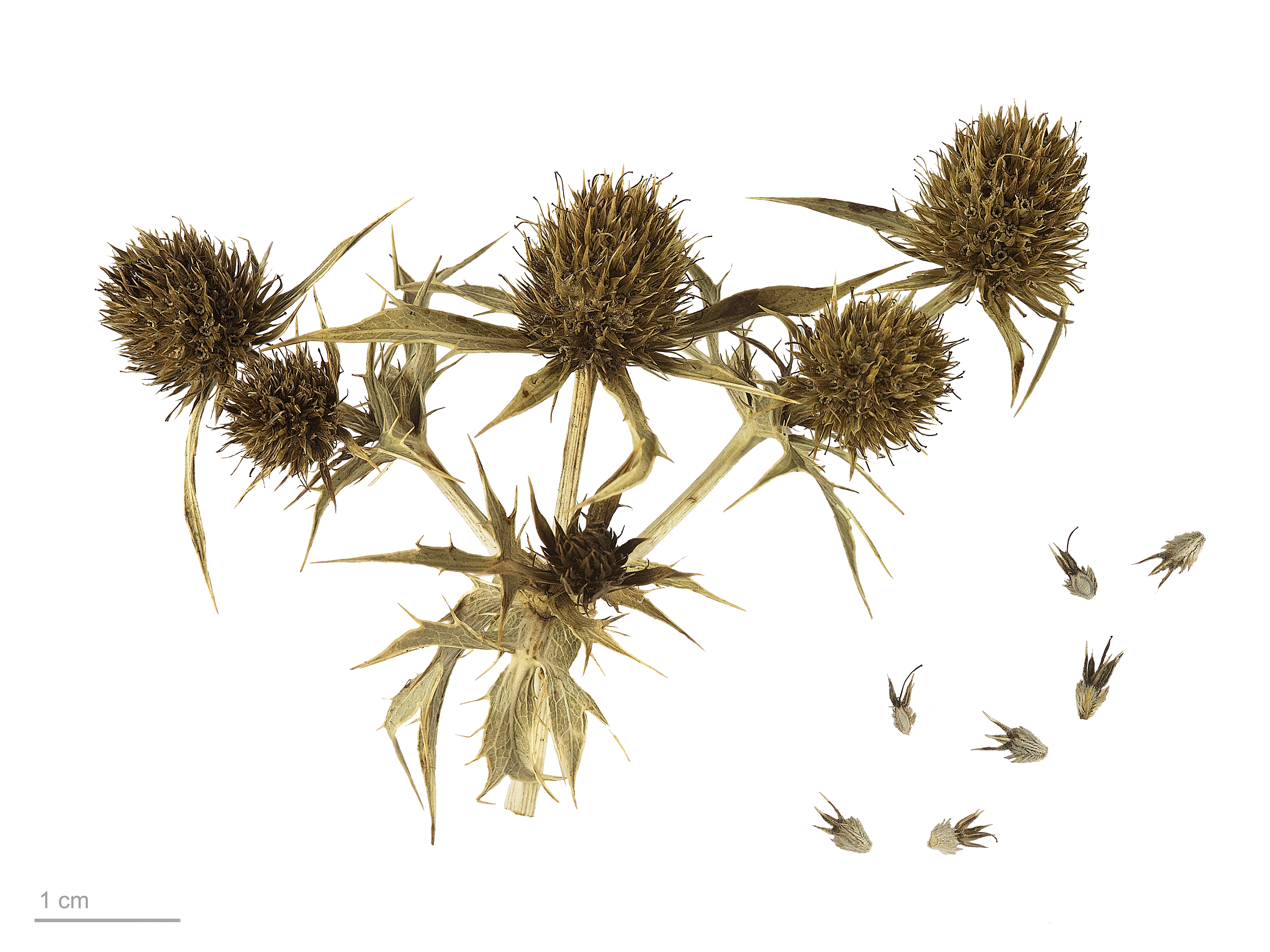 field eryngo, fruits and seeds